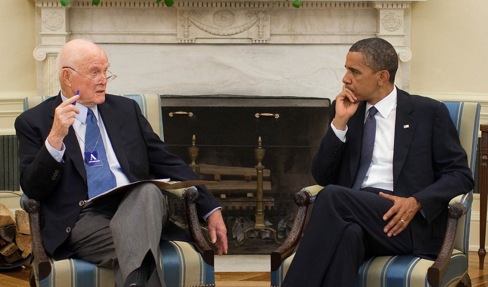 President Barack Obama meets with former Sen. John Glenn, D-Ohio, in the Oval Office, to discuss the President's plan for an ambitious and achievable space program, July 19, 2010. (Official White House Photo by Pete Souza) This official White House photograph is in the public domain from a copyright perspective, so while restrictions such as personality or privacy rights may apply, in general, manipulations are allowed.